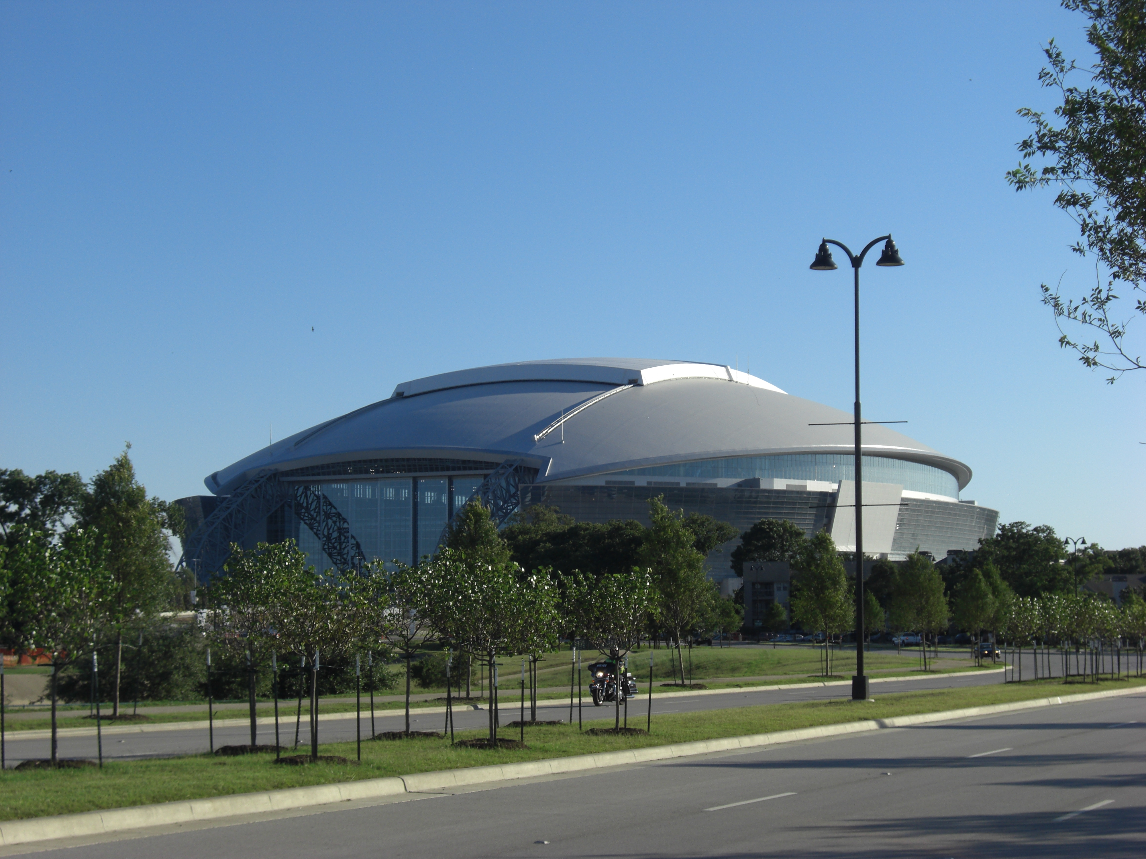 Cowboys Stadium